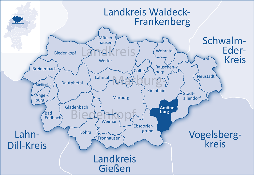 The map shows the municipal territory of Amöneburg in the district of Marburg-Biedenkopf.